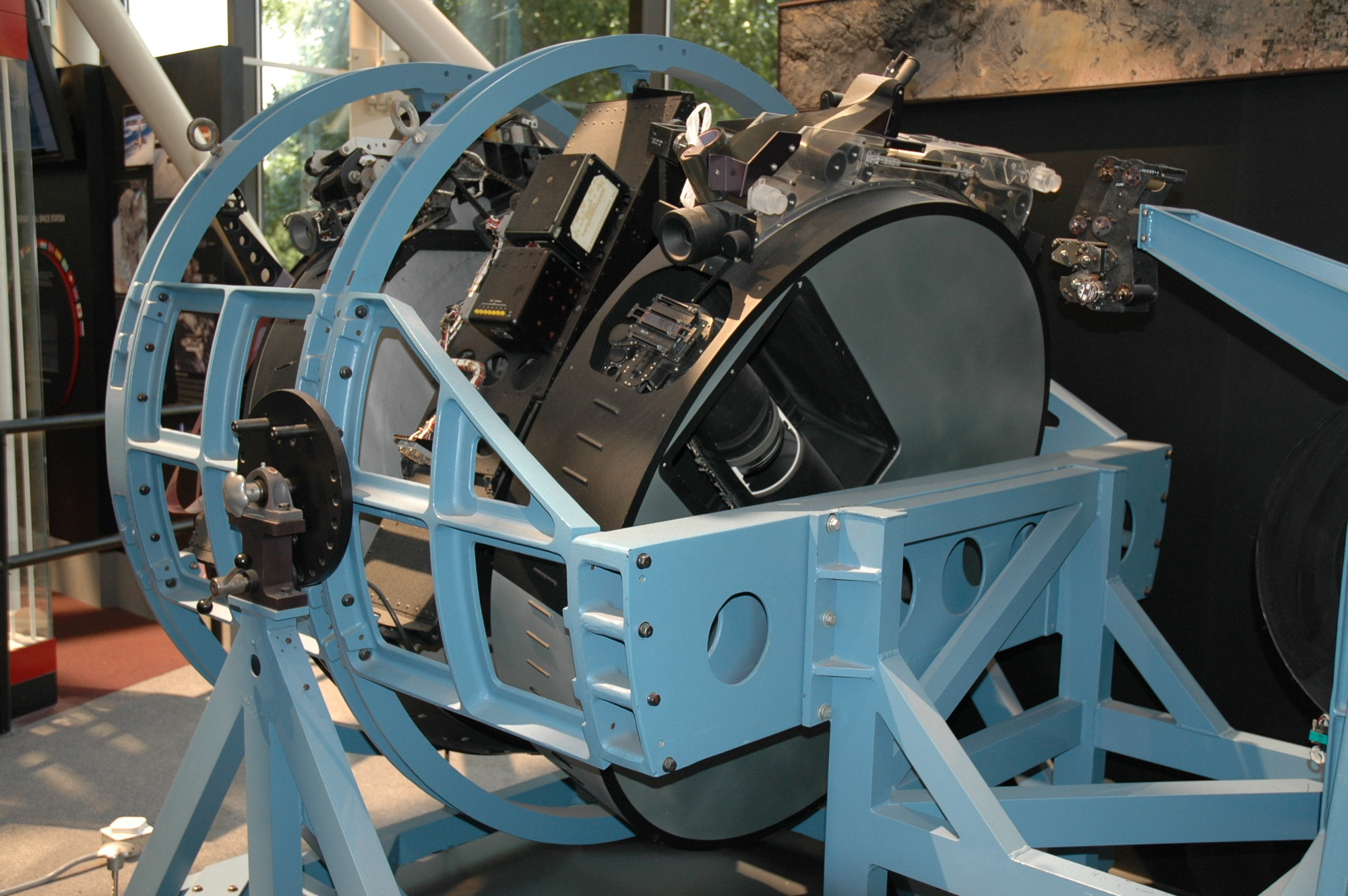 Corona reconnaissance satellite, displayed at the National Air and Space Museum, Washington D.C.